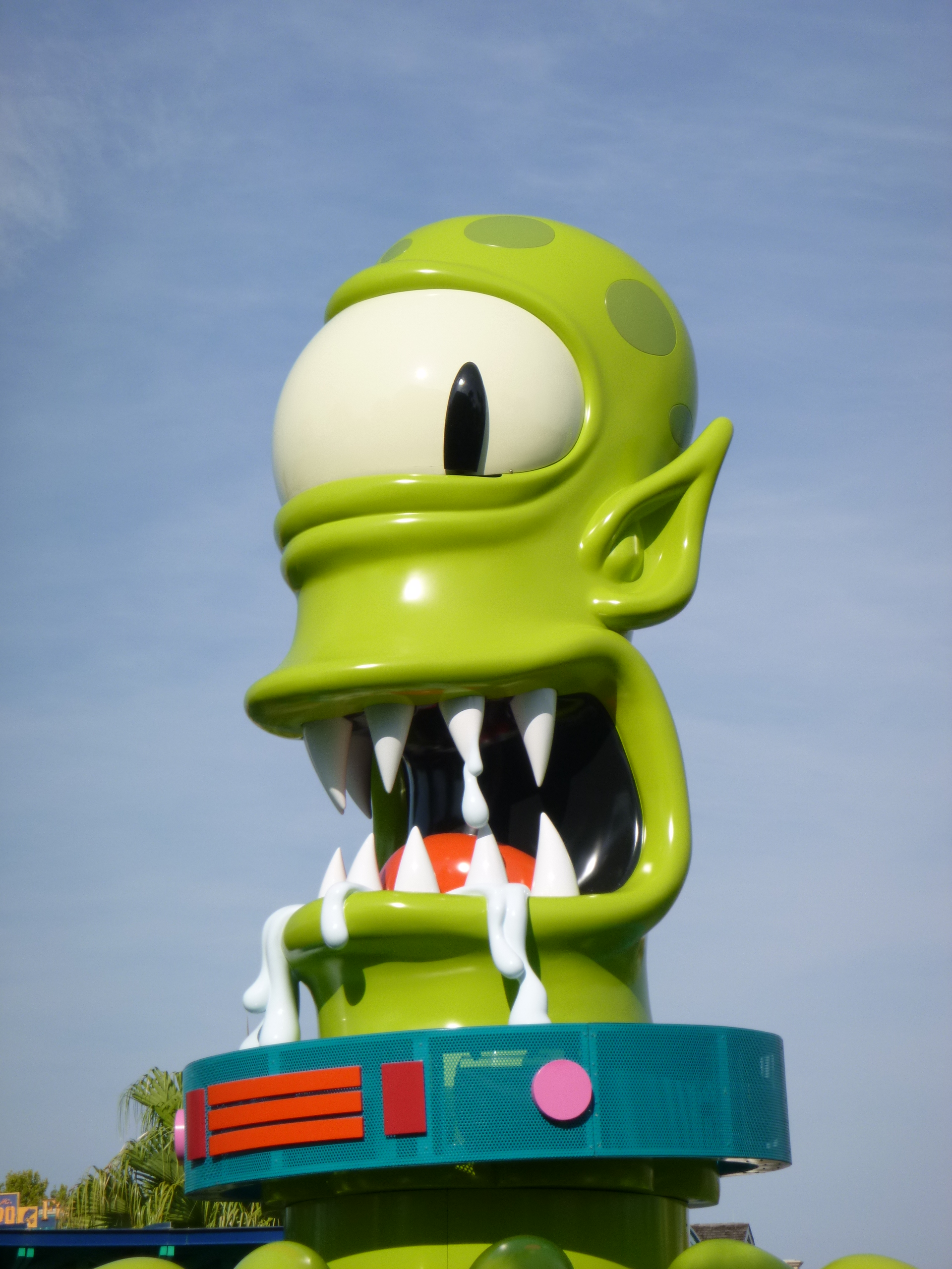 Face of Kang & Kodos' Twirl 'n' Hurl Springfield U.S.A.